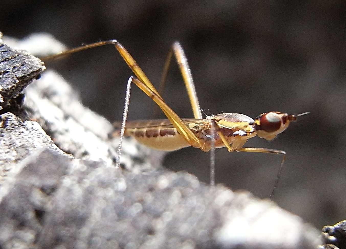 Micropeza lateralis